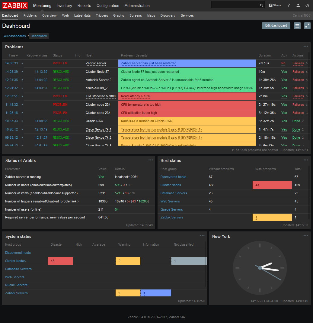 Dashboard of the Zabbix 3.4.0 release, dark theme